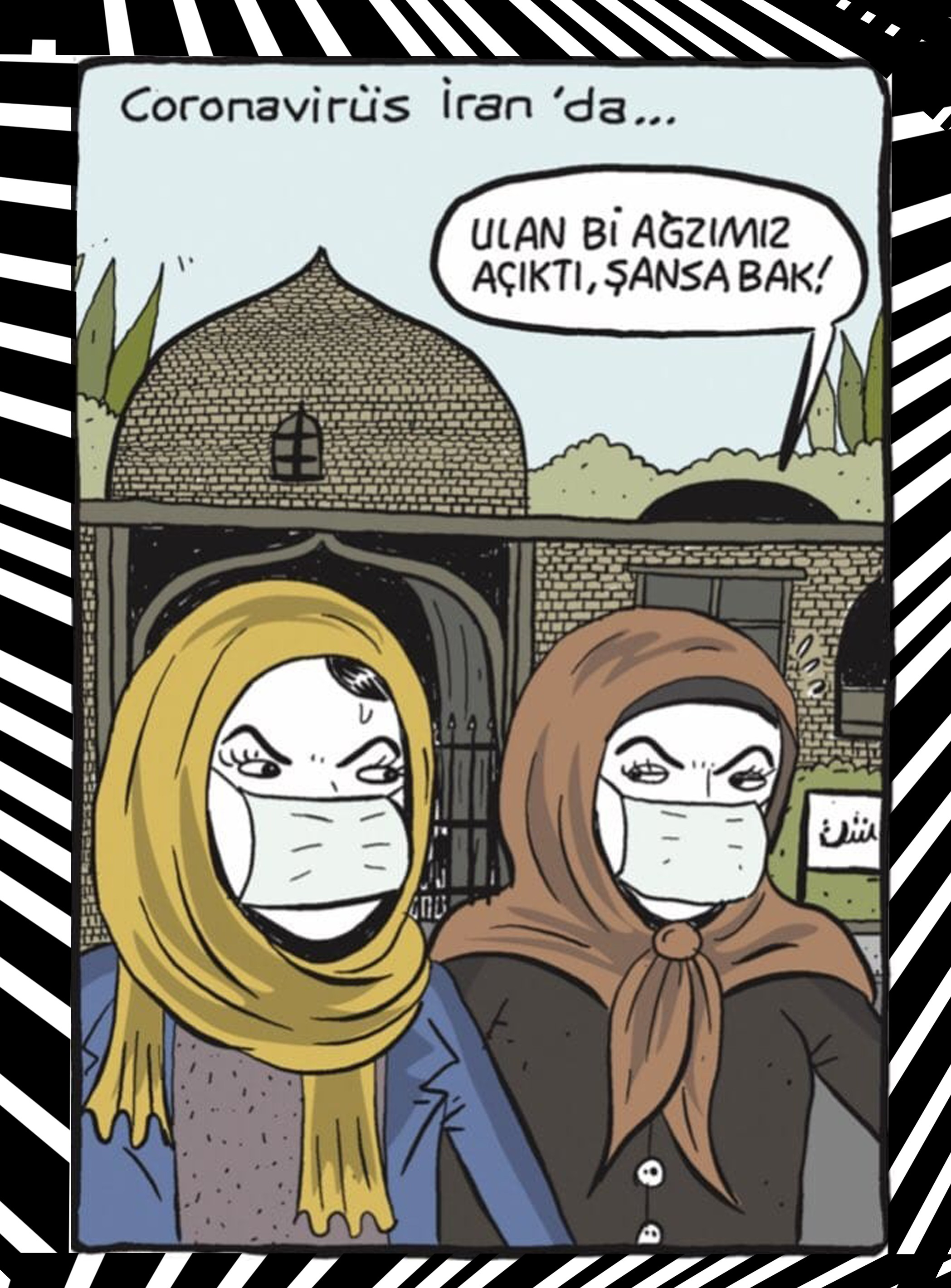 Iran under pressure 2020-2021 (Turkey's LeMan magazine). "Just in front of our (Iranian women) mouth was open. What a chance!"